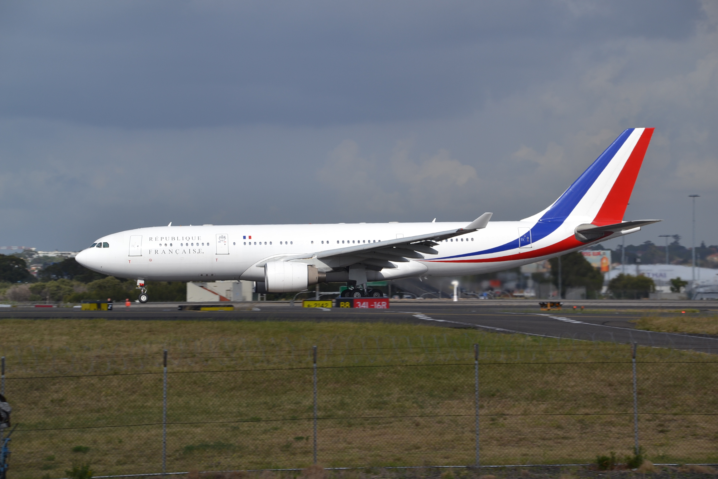 Airbus A330 of the French Air Force at Sydney-SYD, Australia 19/11/14.